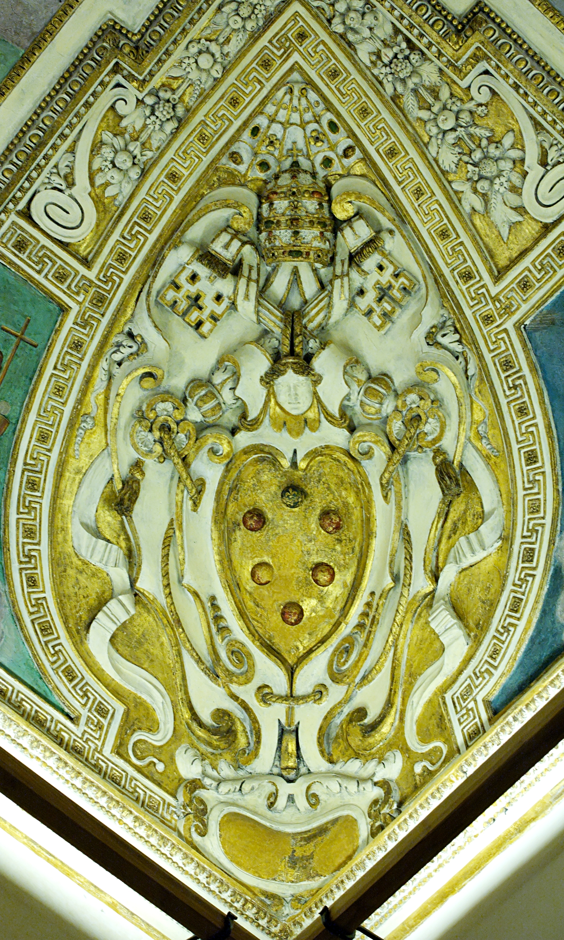 Coat of arms of Pope Pius IV (Medici) in the studiolo of the Madonna of Mercy in Palazzo Altemps, Rome.